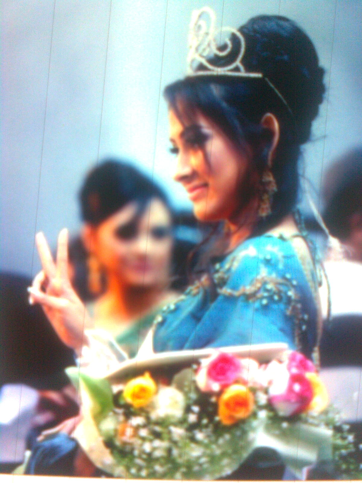 Mehazabien Chowdhury shows virtue sign